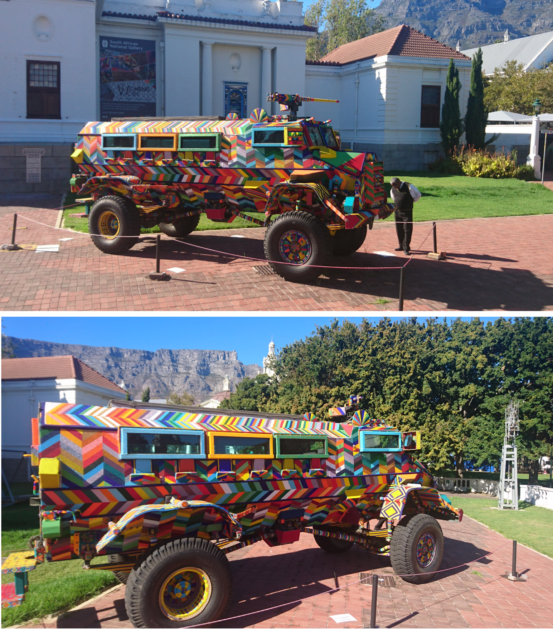 An embroided Casspir armoured vehicle outside the Iziko Art Museum in Cape Town as part of the The Casspir Project.